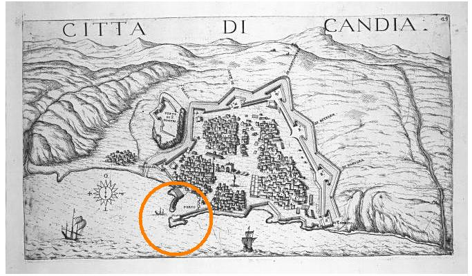 This is a modfication of an old map of Candia showing the Koules Fortress